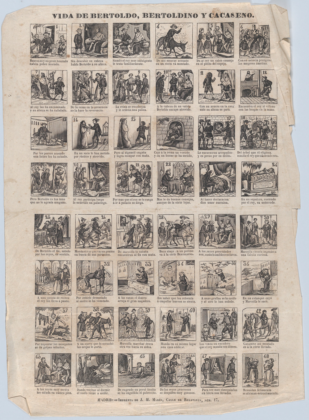 Print; Prints